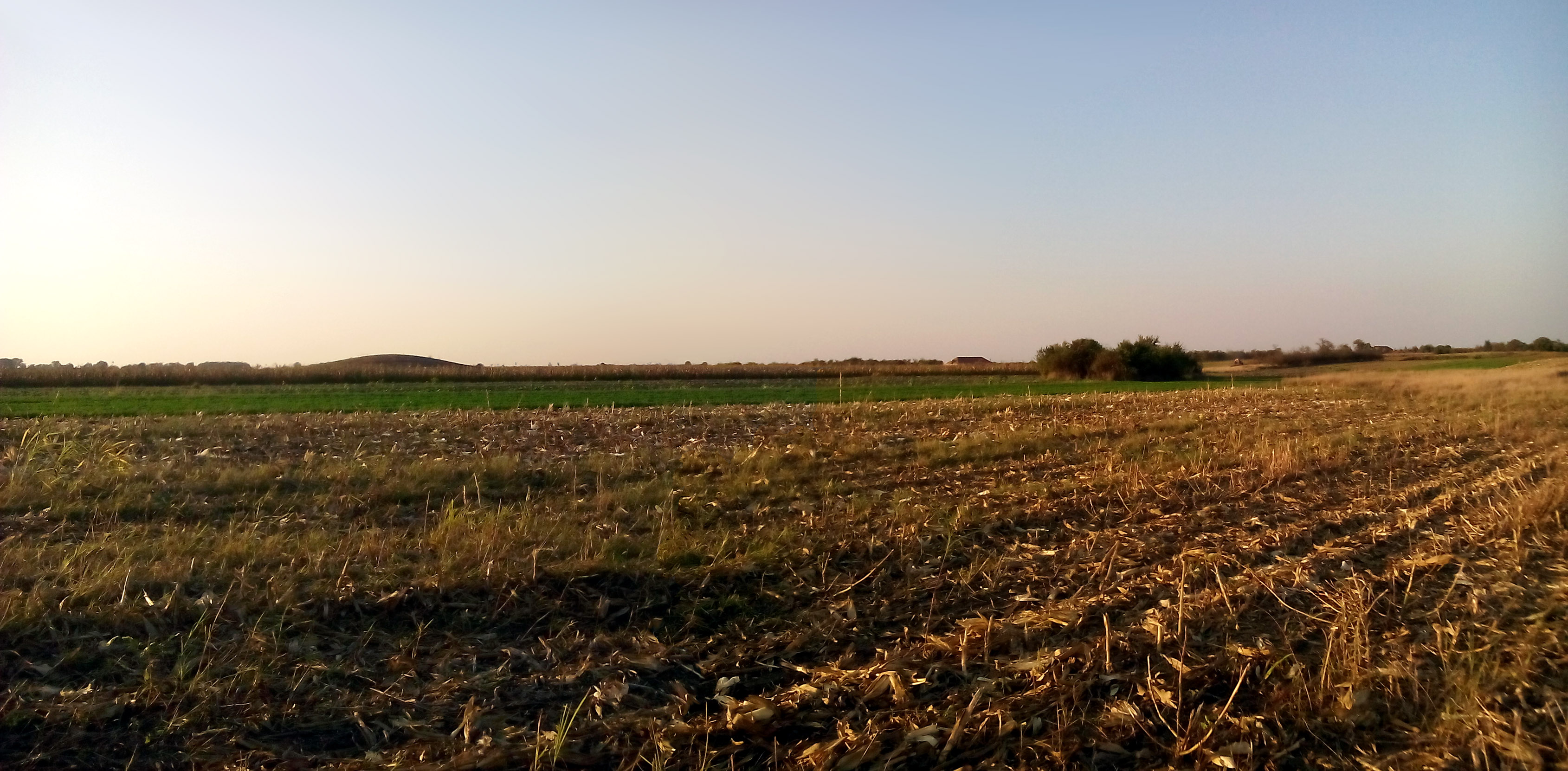 Kurgan in Ostojićevo, Northern Banat, Serbia (BAN051)